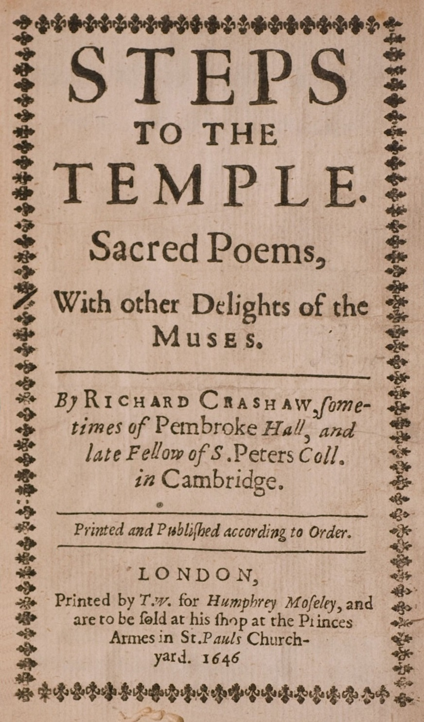 Cover of Richard Crashaw's poetry collection Steps to the Temple. Sacred Poems, With other Delights of the Muses (London: Printed by T. W. for Humphrey Moseley, 1646). Image located at: Other information cropped from the original image on in order to render a two-dimensional work.